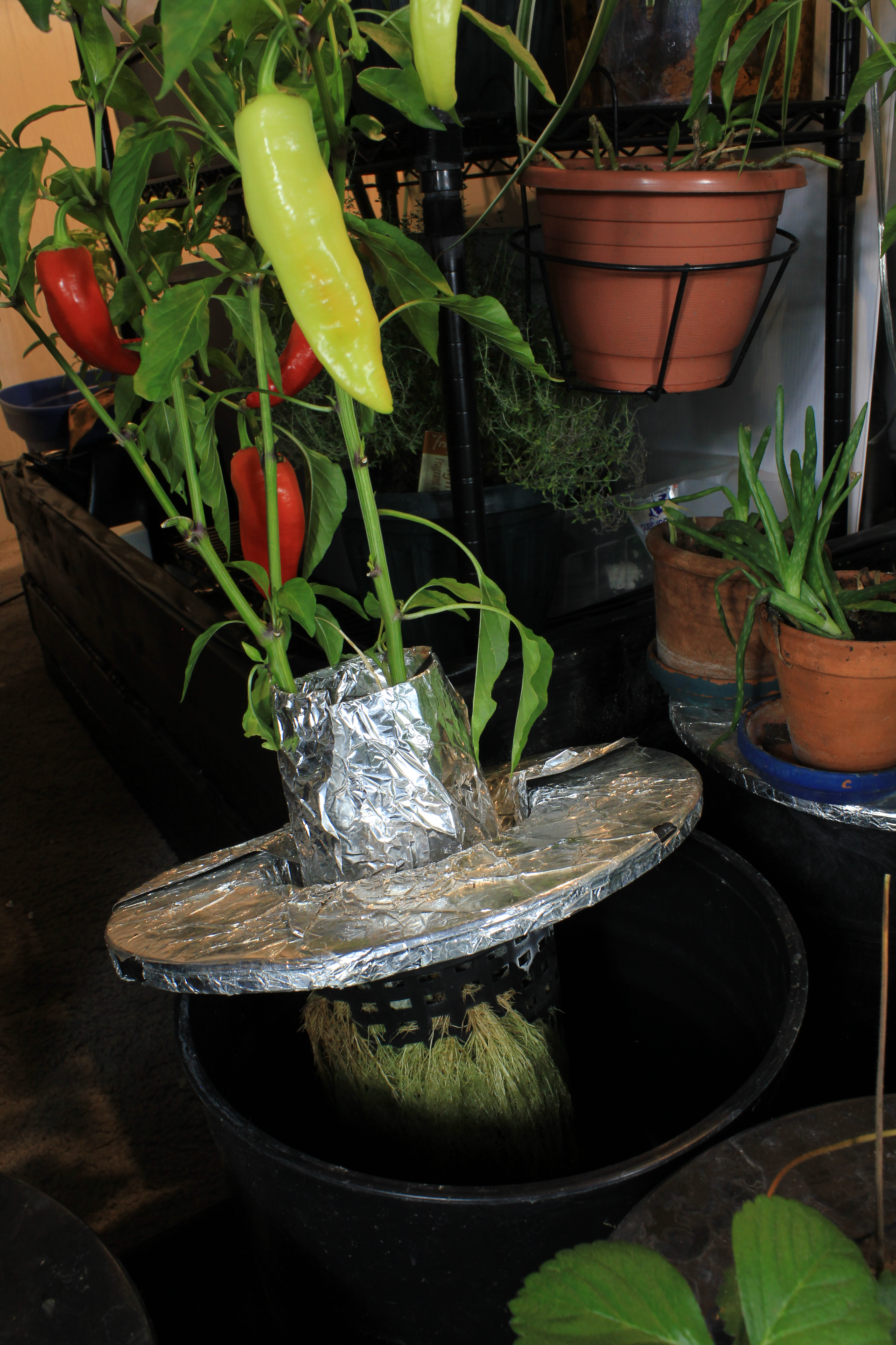 Hungarian wax peppers grown hydroponically , roots of the plant growing in water and fertiliser.